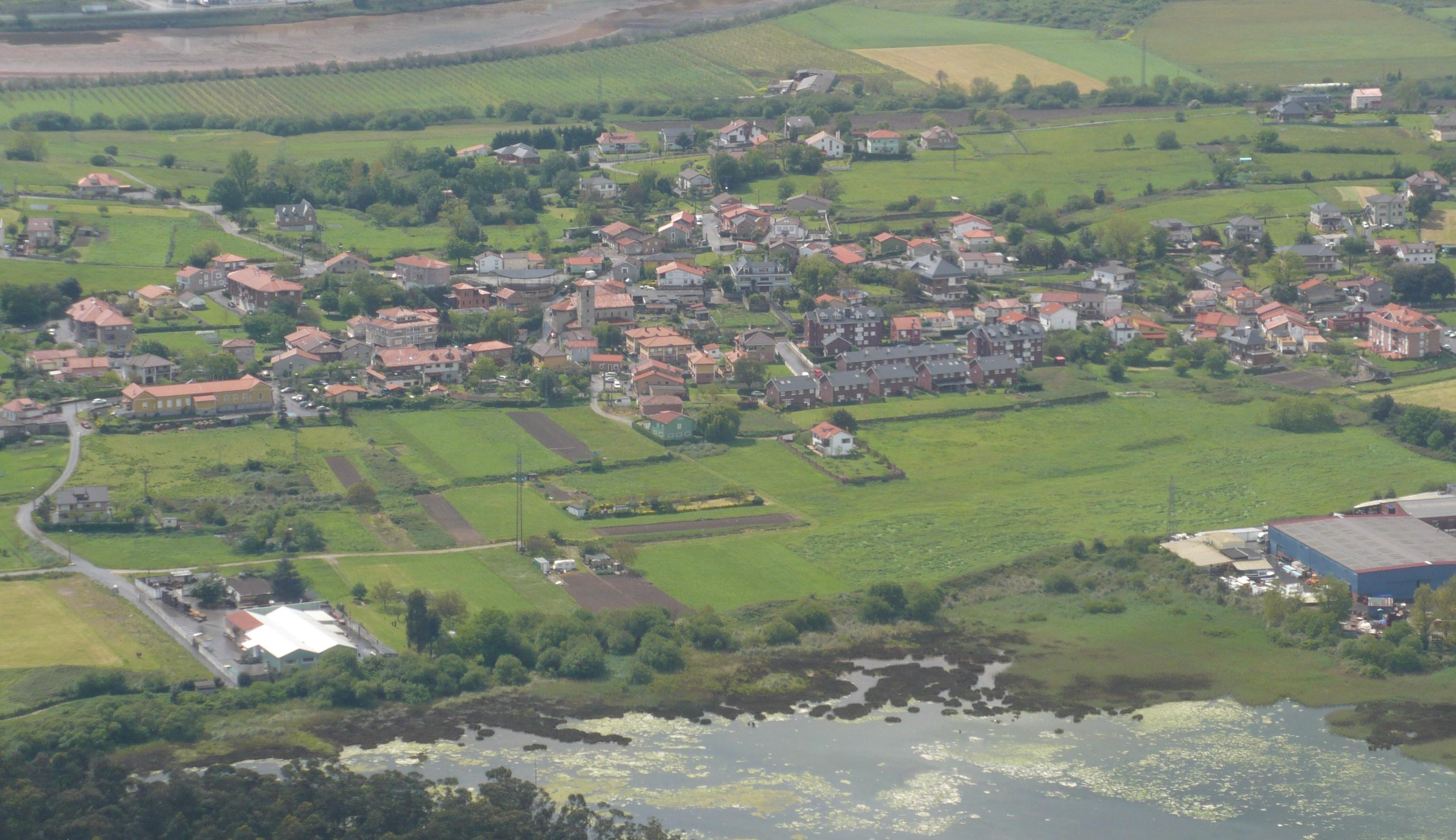 Pontejos from a plane